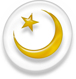 Symbol of Islam, white and golden version. Warning: many islamic people had pointed that this is rather a political symbol than a religious one. They strongly advise to use the one that represent the name of Allah instead.